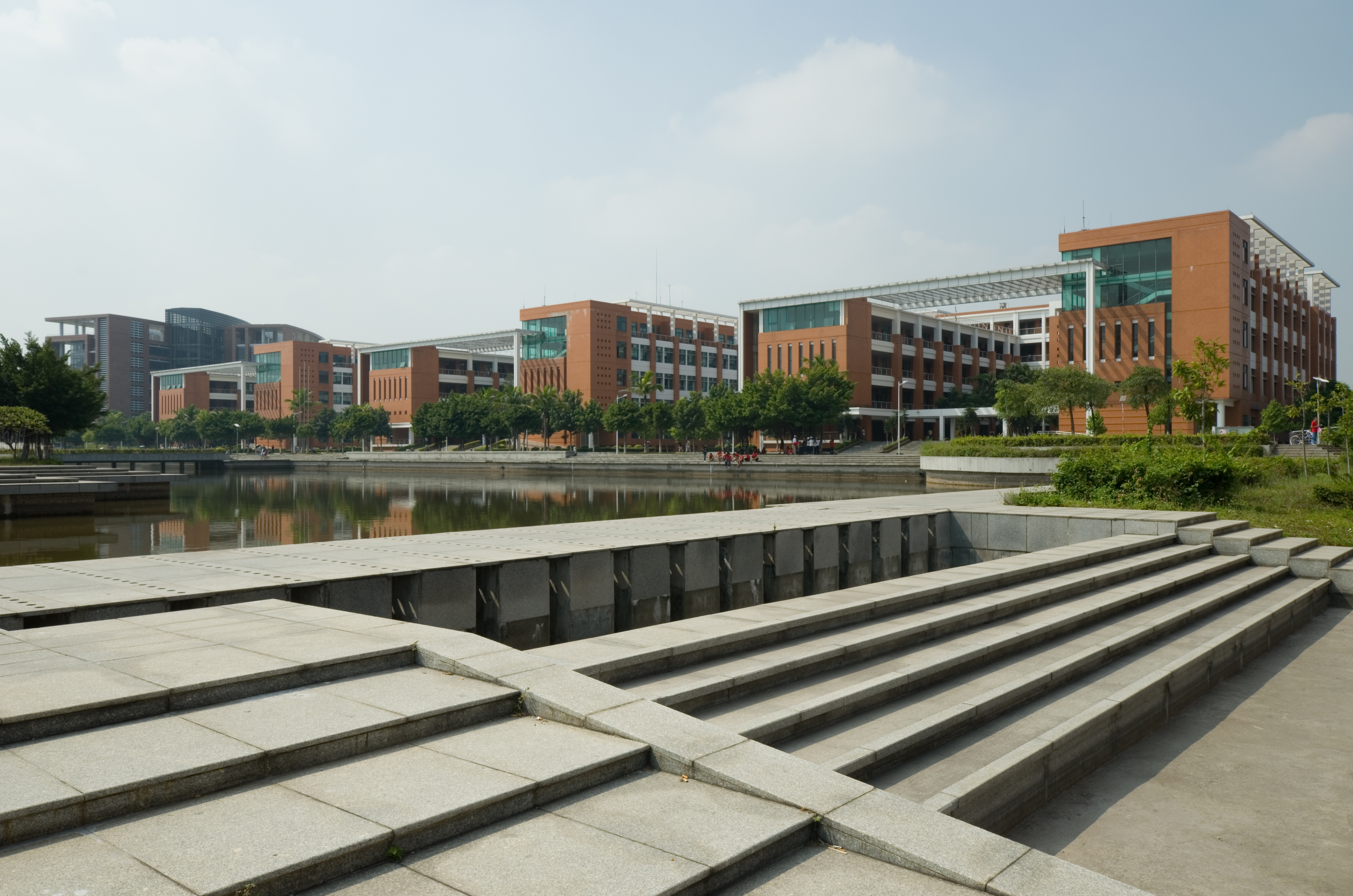 South China University of Technology south campus